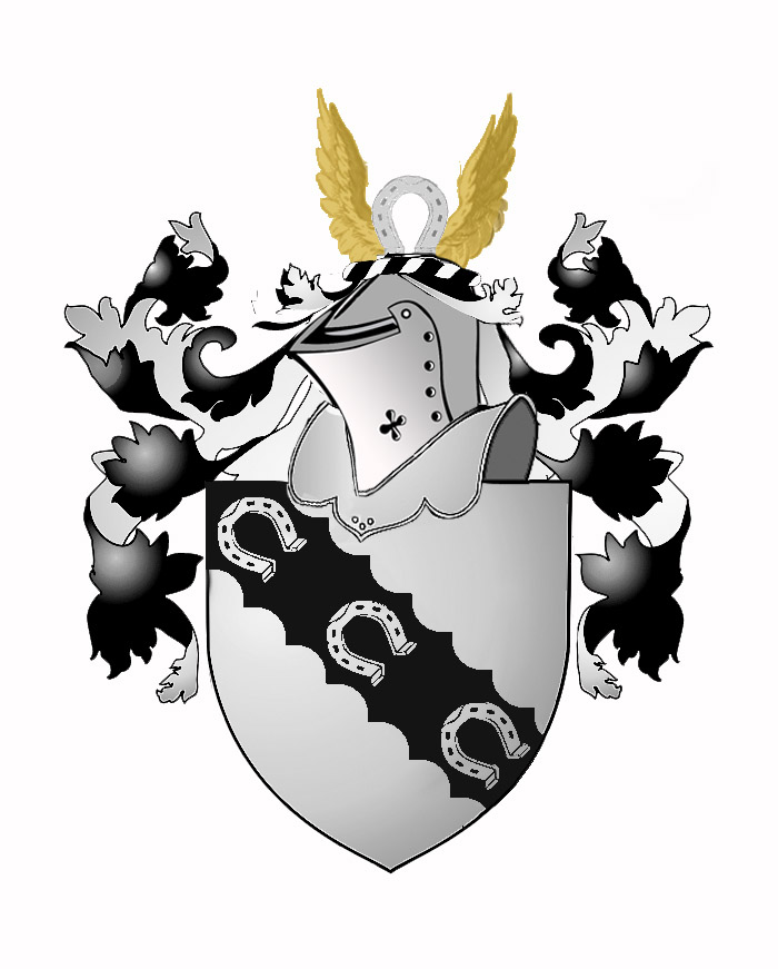 These are the armorial bearings of John Ferrar (Farrar) of Croxton, Lincolnshire and Esquire of London as described in the Visitations of Surrey and Hertfordshire Counties: Arms.- Argent, on a bend engrailed sable three horse-shoes of the field, a crescent for a difference. Crest.- A horse-shoe argent between two wings or.